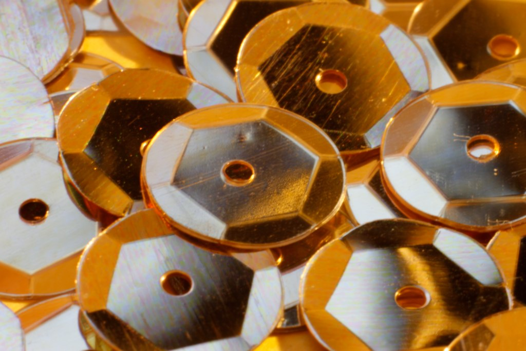 Sequins.